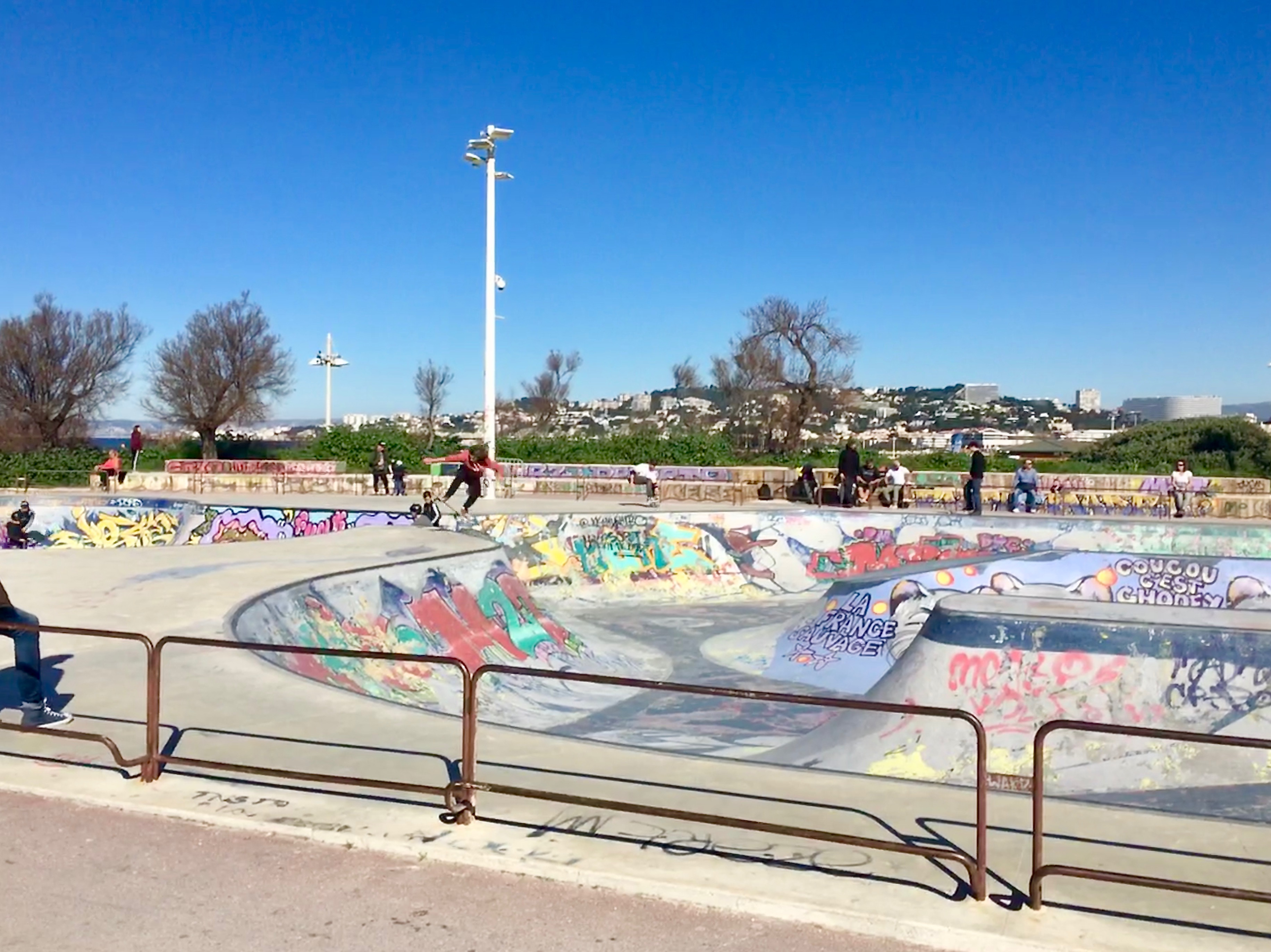 Bowl of Marseille 2020